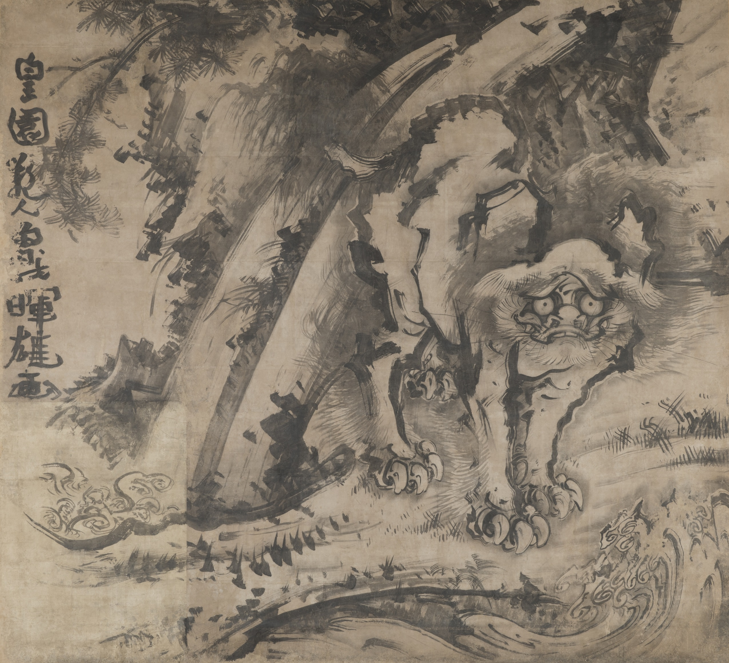 Chinese Lions by Soga Shohaku, Chodenji, Matsusaka, Mie, Japan